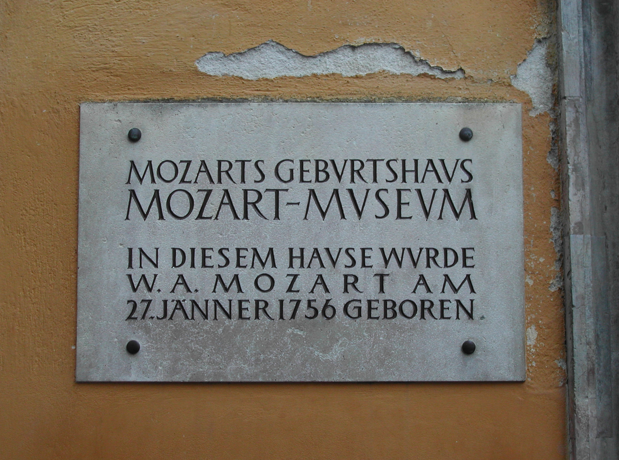 Austria, Salzburg, Getreidegasse